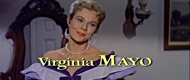 This image is a screenshot from a public domain trailer for the 1956 film, The Proud Ones . Trailers for movies released before 1964 are in the Public Domain because they were never separately copyrighted.